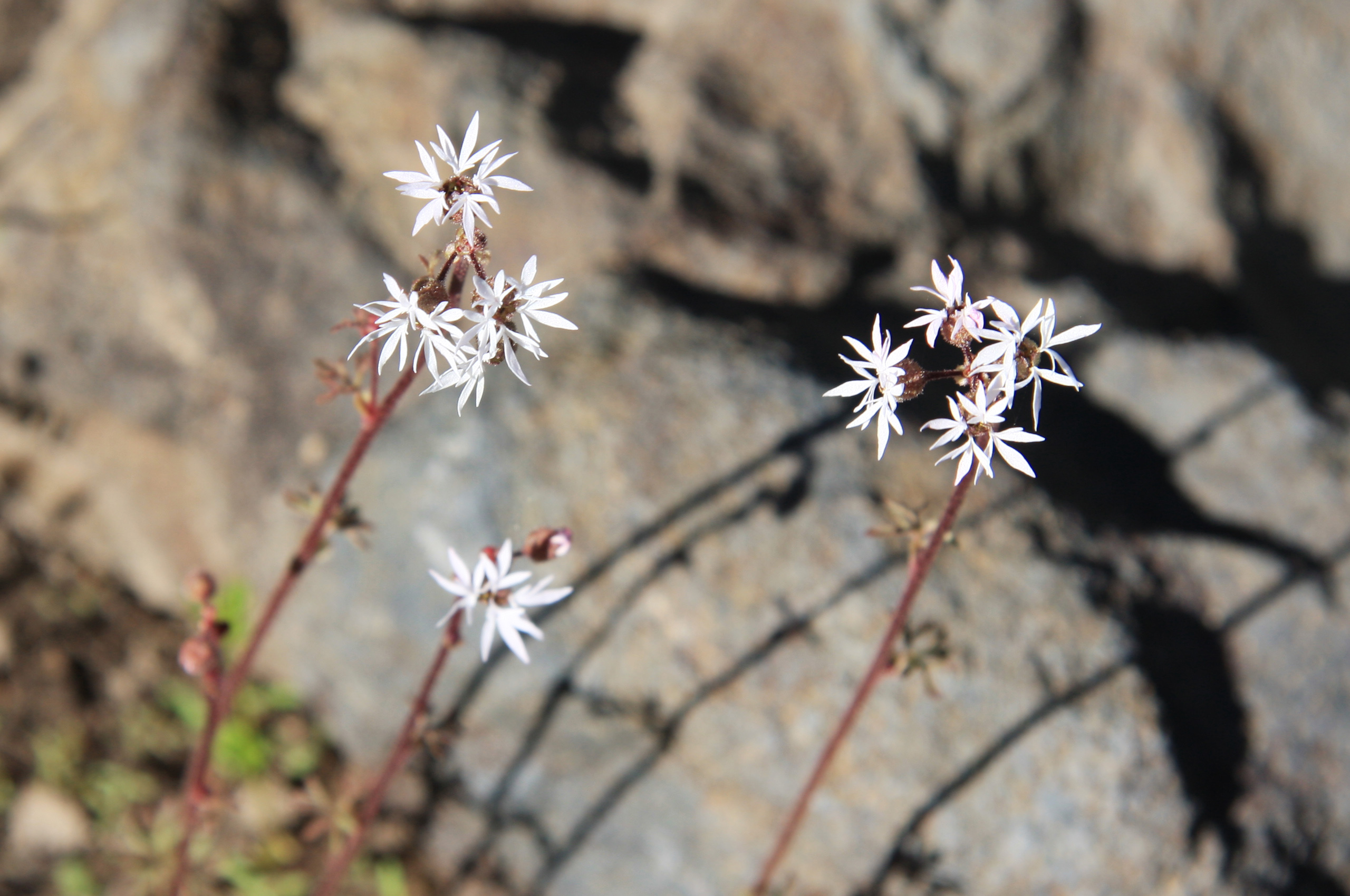 Rock star (Lithophragma glabrum) flowers, with deeply lobed petals, on red stems. At 2,976 m (9,764 ft) along High Trail (part of Pacific Crest Trail) below Agnew Pass, Ansel Adams Wilderness, California.